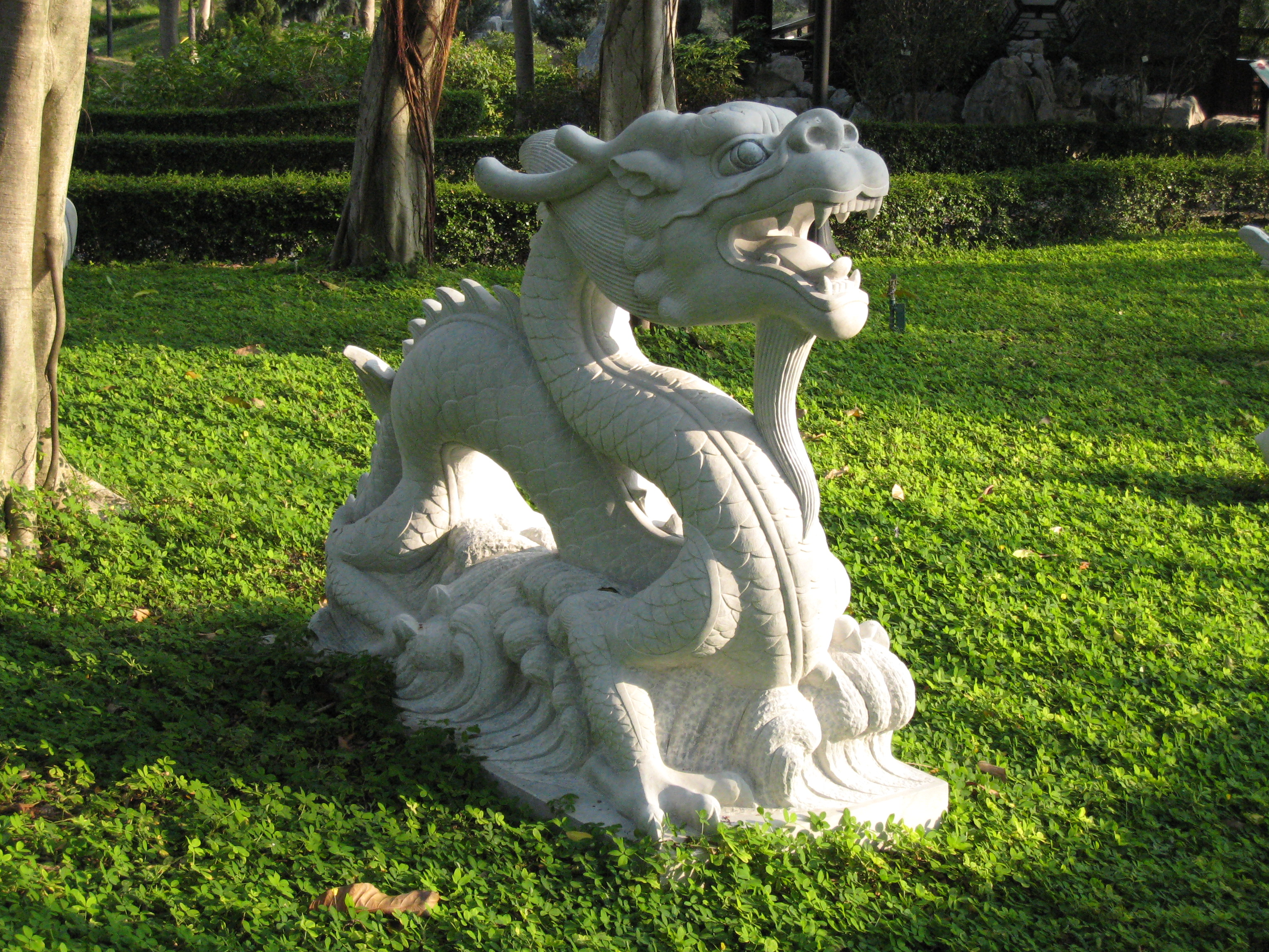 The Dragon statue is one of the 12 Chinese zodiac portrayed in the Kowloon Walled City Park in Kowloon City, Hong Kong.